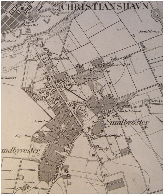 A map detail showing Sundbyvester and Sundbyøster on Amager, Denmark